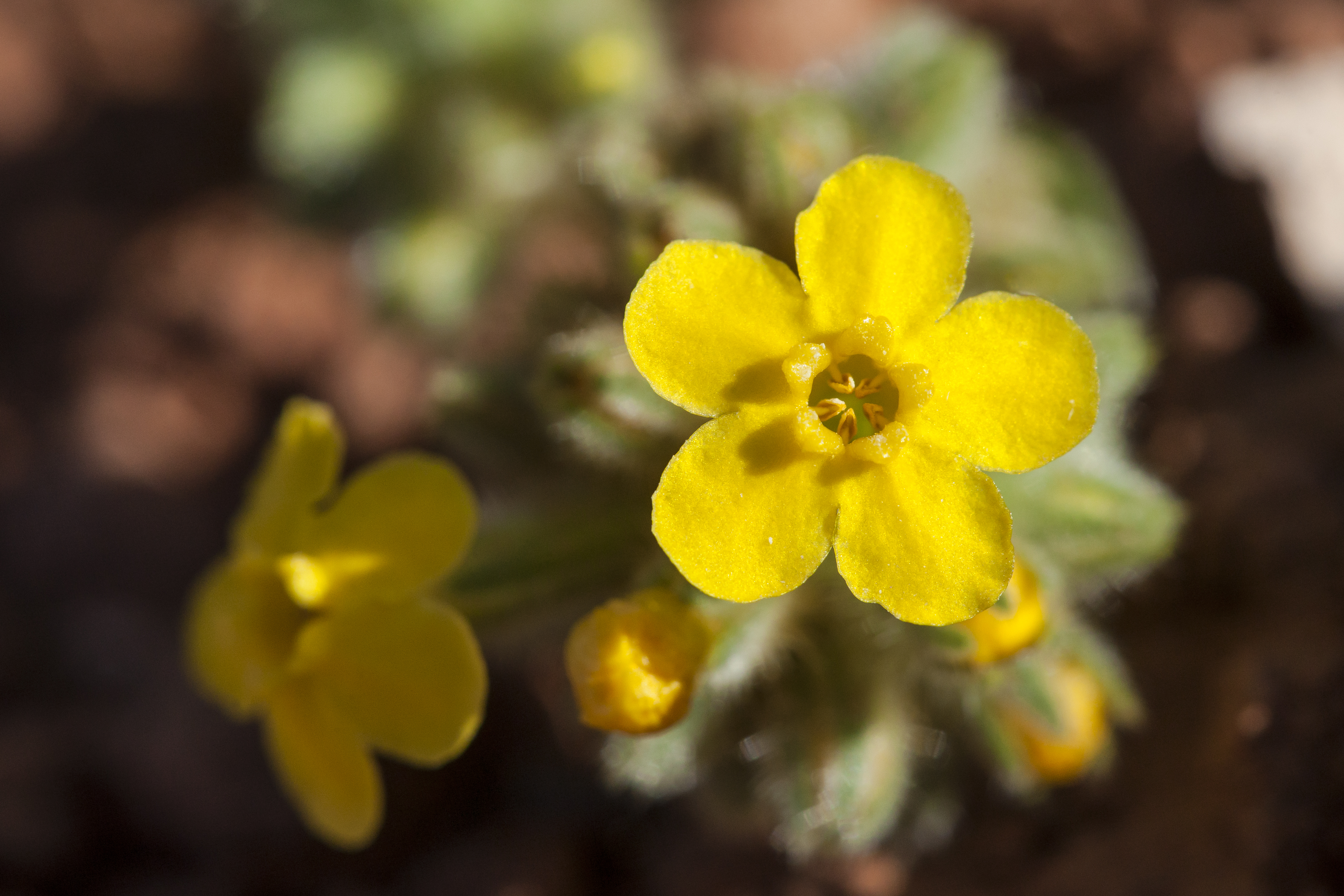 (NPS photo by Jacob W. Frank)